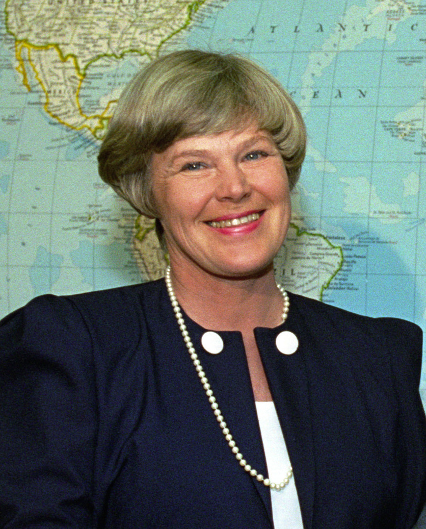 Elisabeth Rehn, Finnish Minister of Defense, at the Pentagon, Washington, D.C., on May 19, 1993.